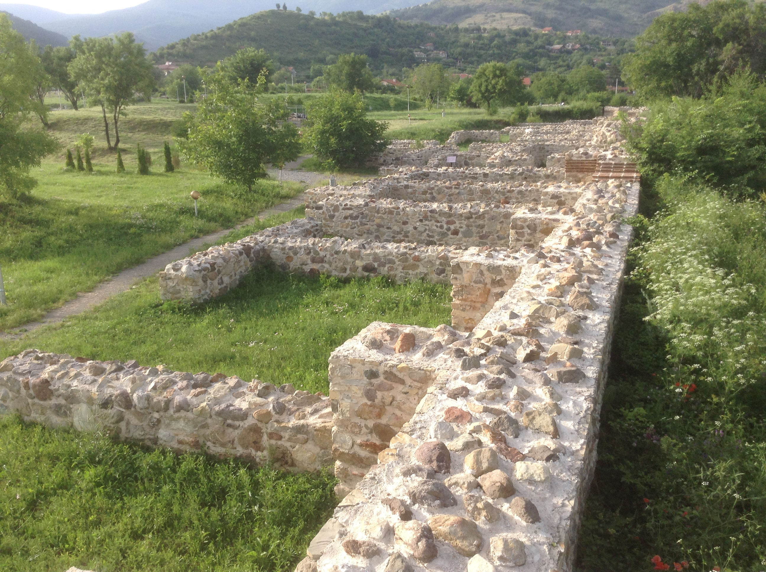 Античен град и крепост Туида, Сливен